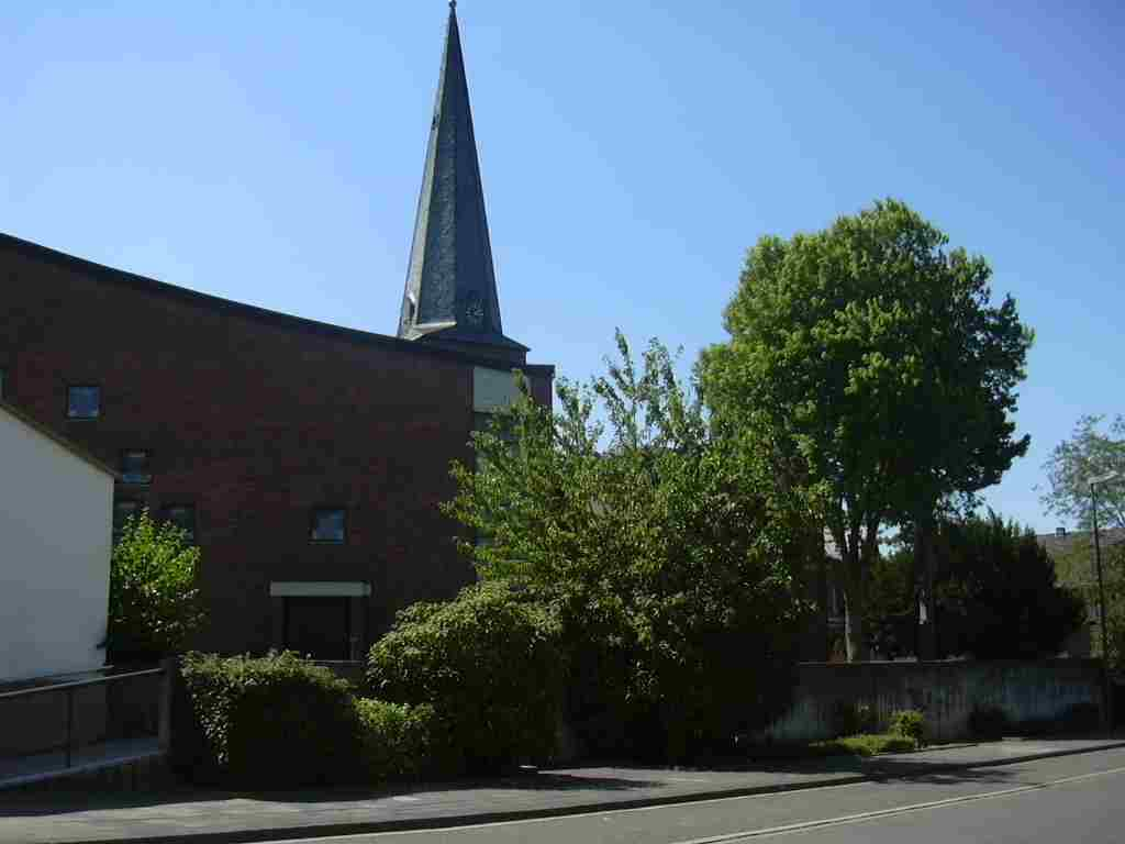 Merken Kirche own work papa1234 2006-07-14